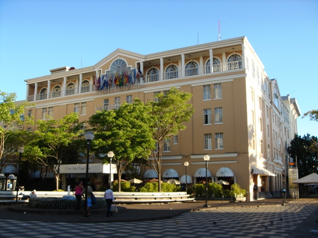 Gran Hotel Costa Rica, San José (Costa Rica).